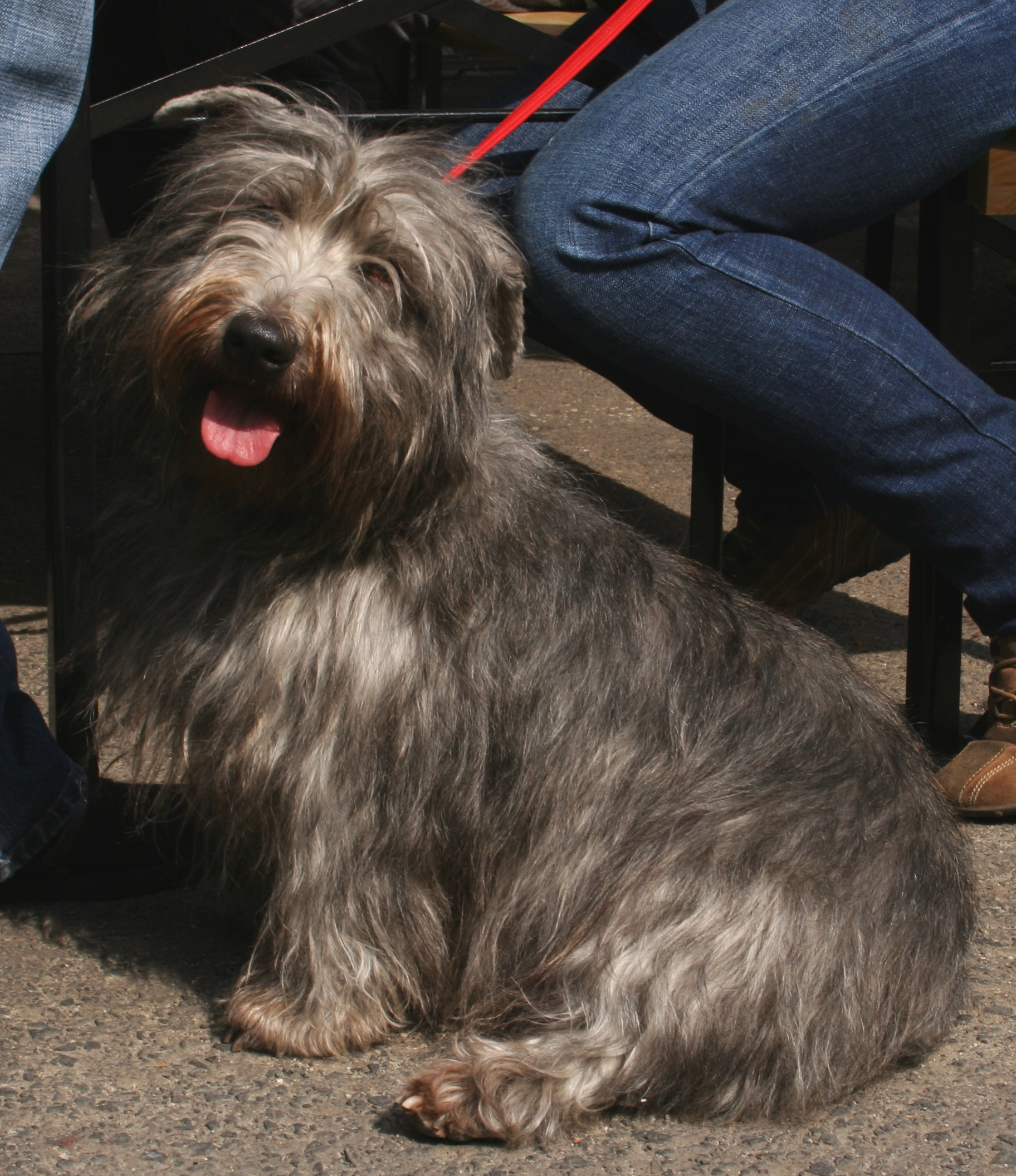 Irish Glen of Imaal Terrier during International show of dogs in Katowice - Spodek, Poland. Breeder - Piotr Kuźnik